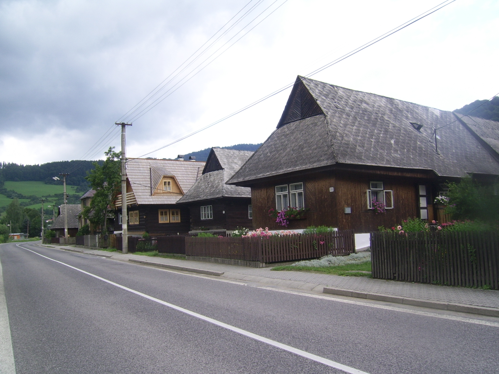 Old slovak houses in Oravský Podzámok, Slovakia